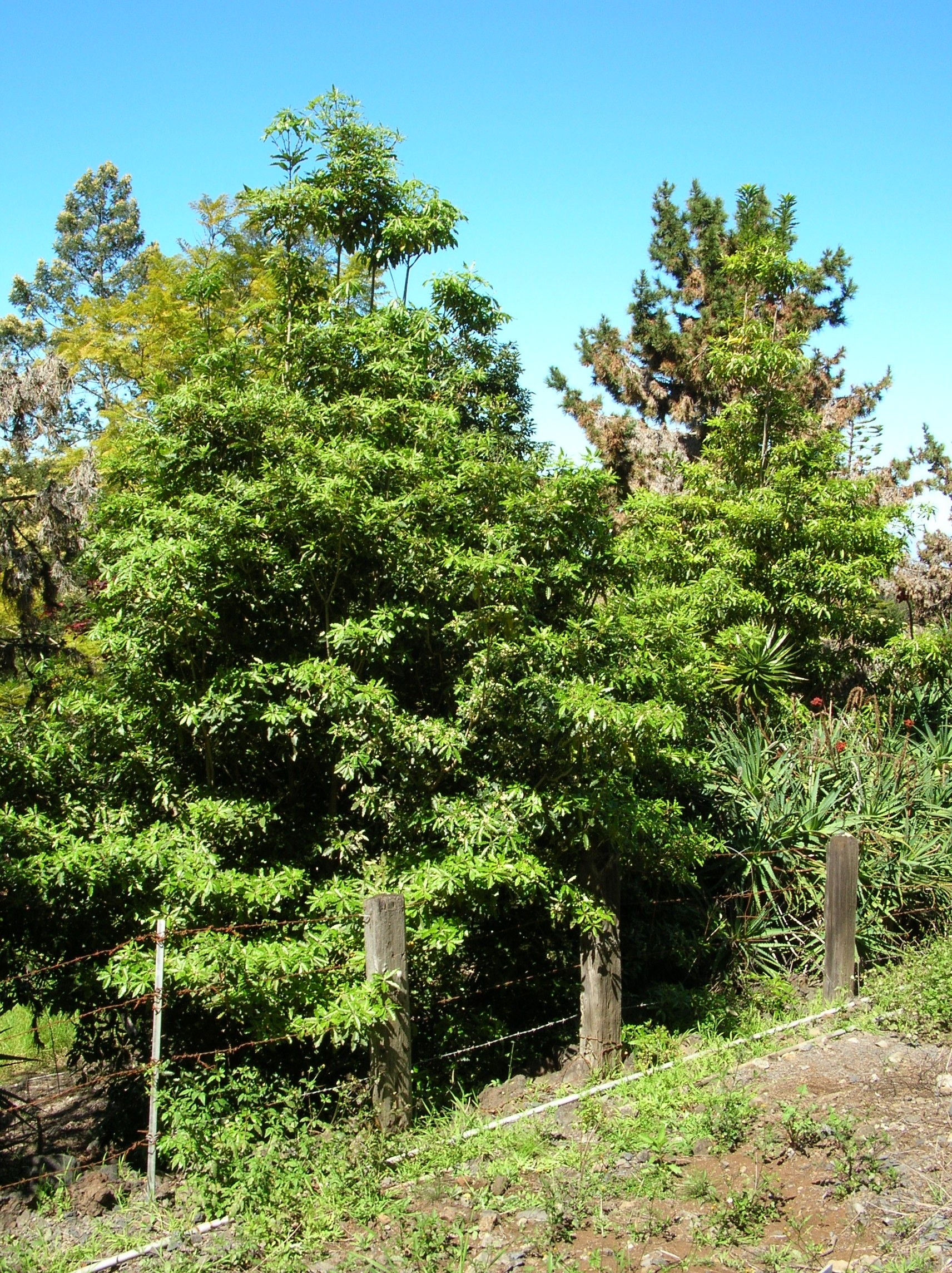 Pittosporum undulatum (habit). Location: Maui, Kula